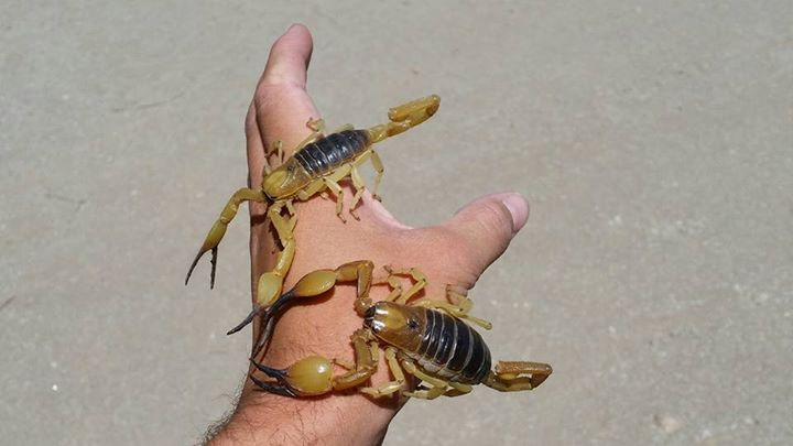 Opistophthalmus longicauda - female nearer camera - Aughrabies Falls, Northern Cape, South Africa